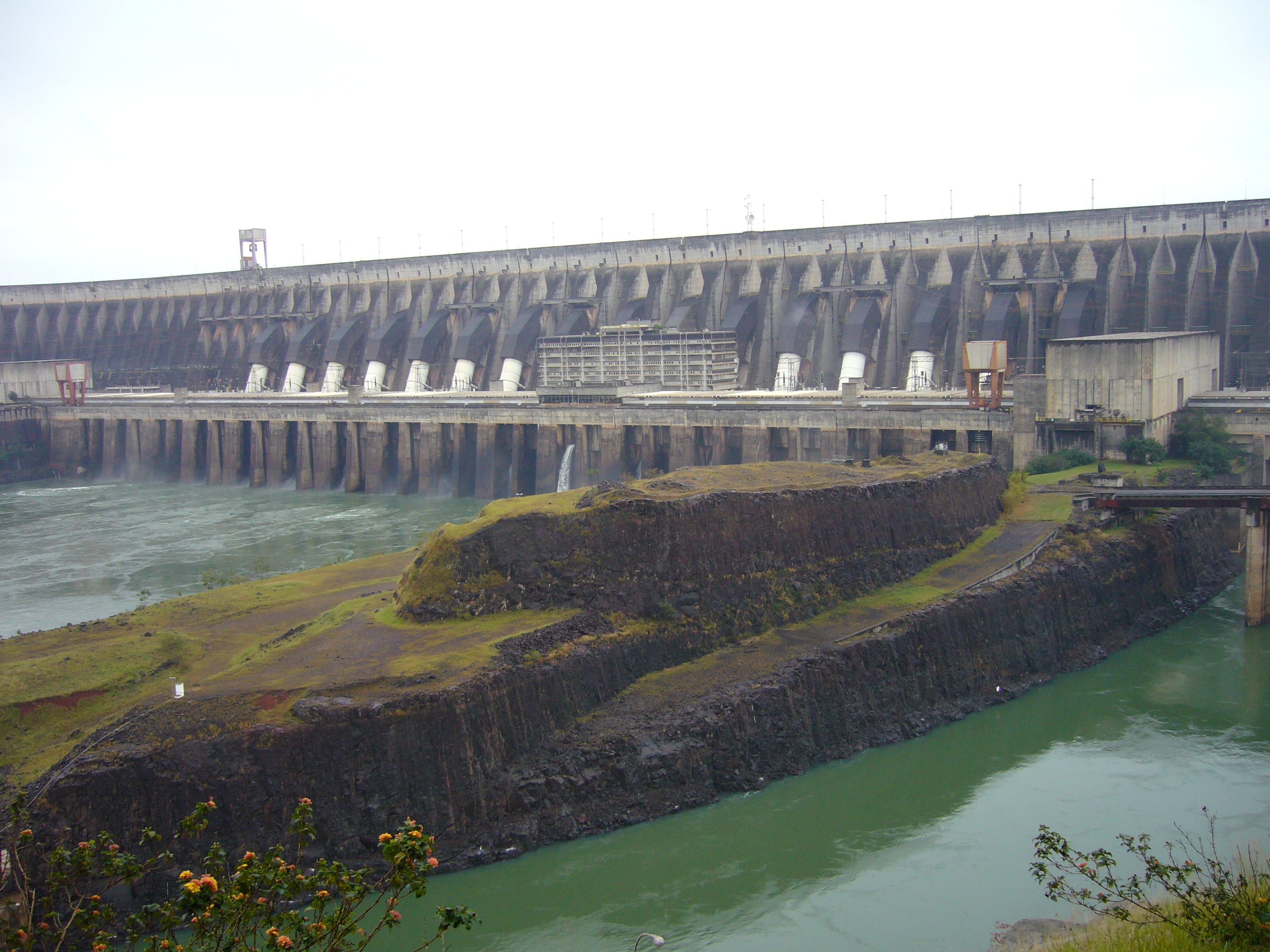 The Itaipu dam in Brasil. Photographed in July 2007.